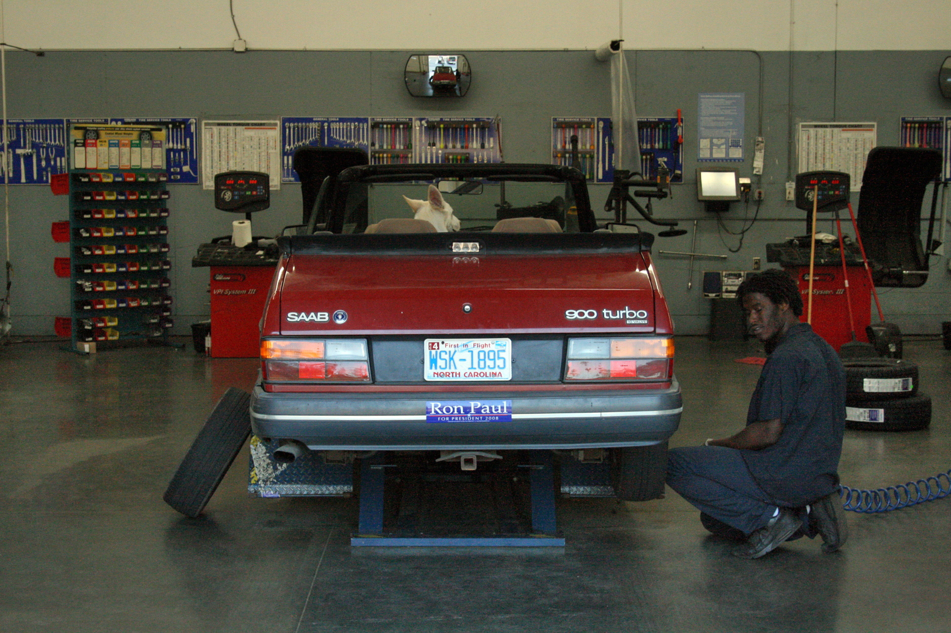 A red 1989 Saab 900 Turbo convertible getting new rear tyres at Sam's Club in Durham, North Carolina.